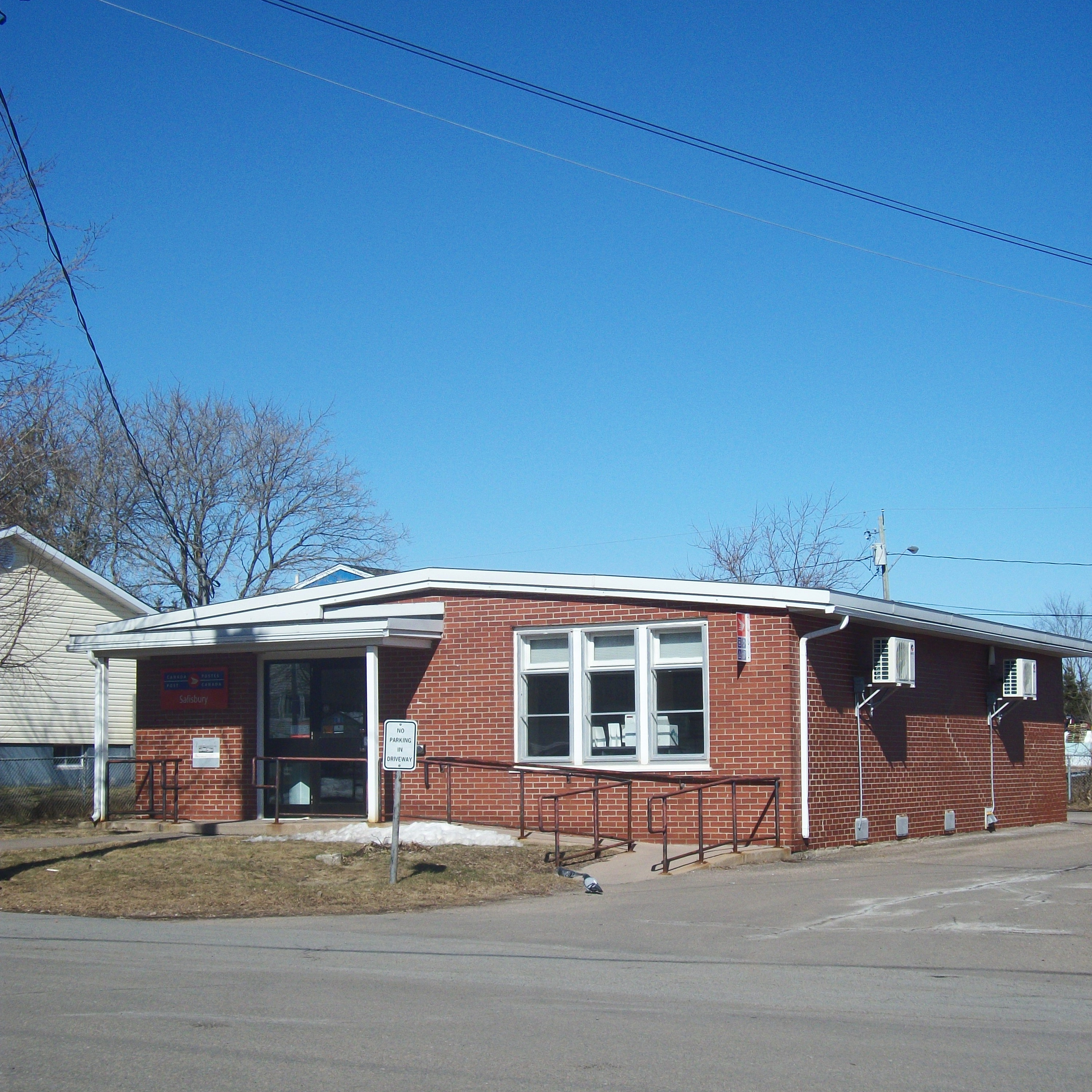 Federal post office in Salisbury, Westmorland County, New Brunswick, Canada.